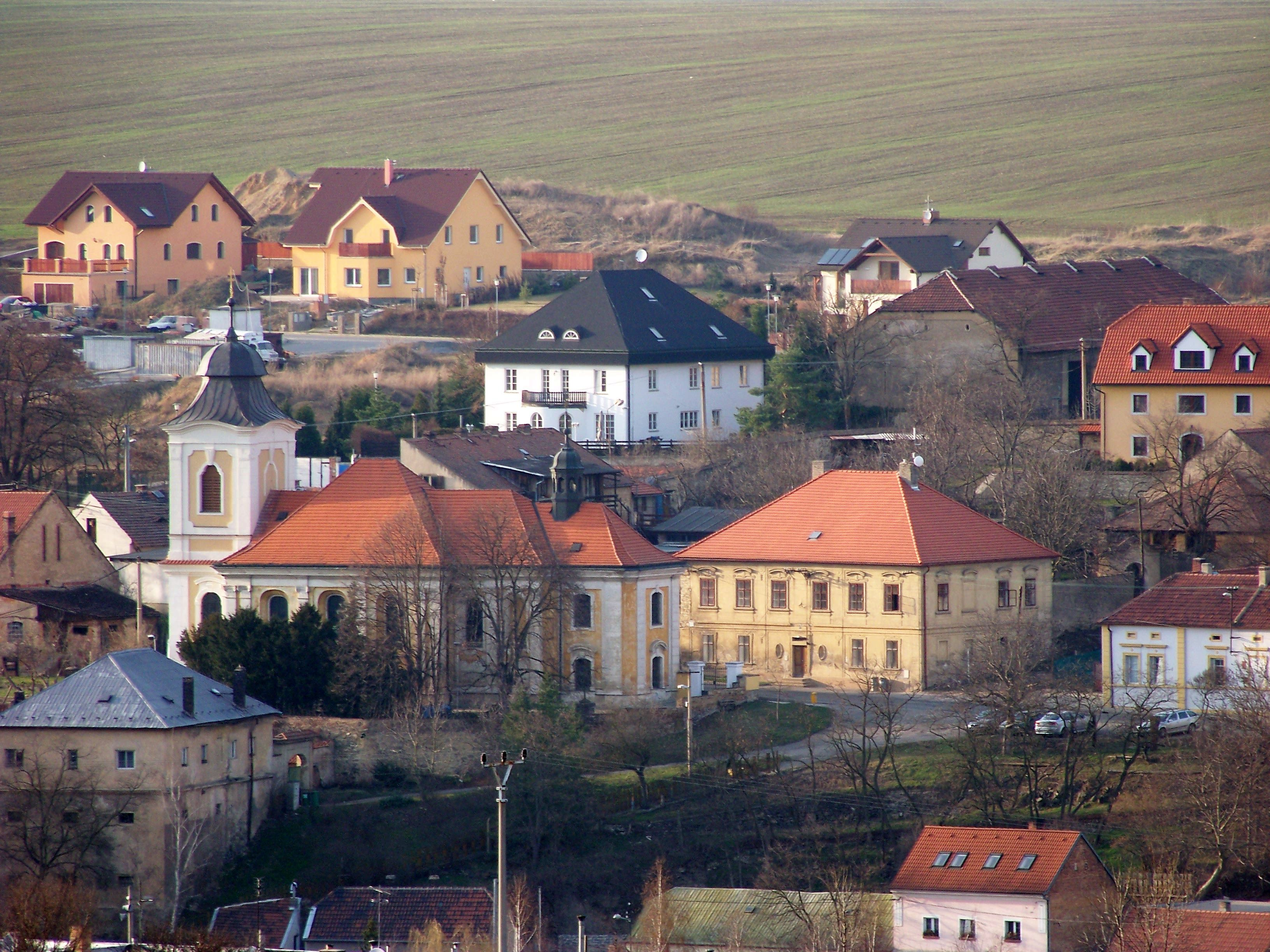 Únětice, Prague-West District, Central Bohemian Region, the Czech Republic. A view of the church from Kozí hřbety Rocks (Suchdol, Prague). - Google Maps - Google Earth